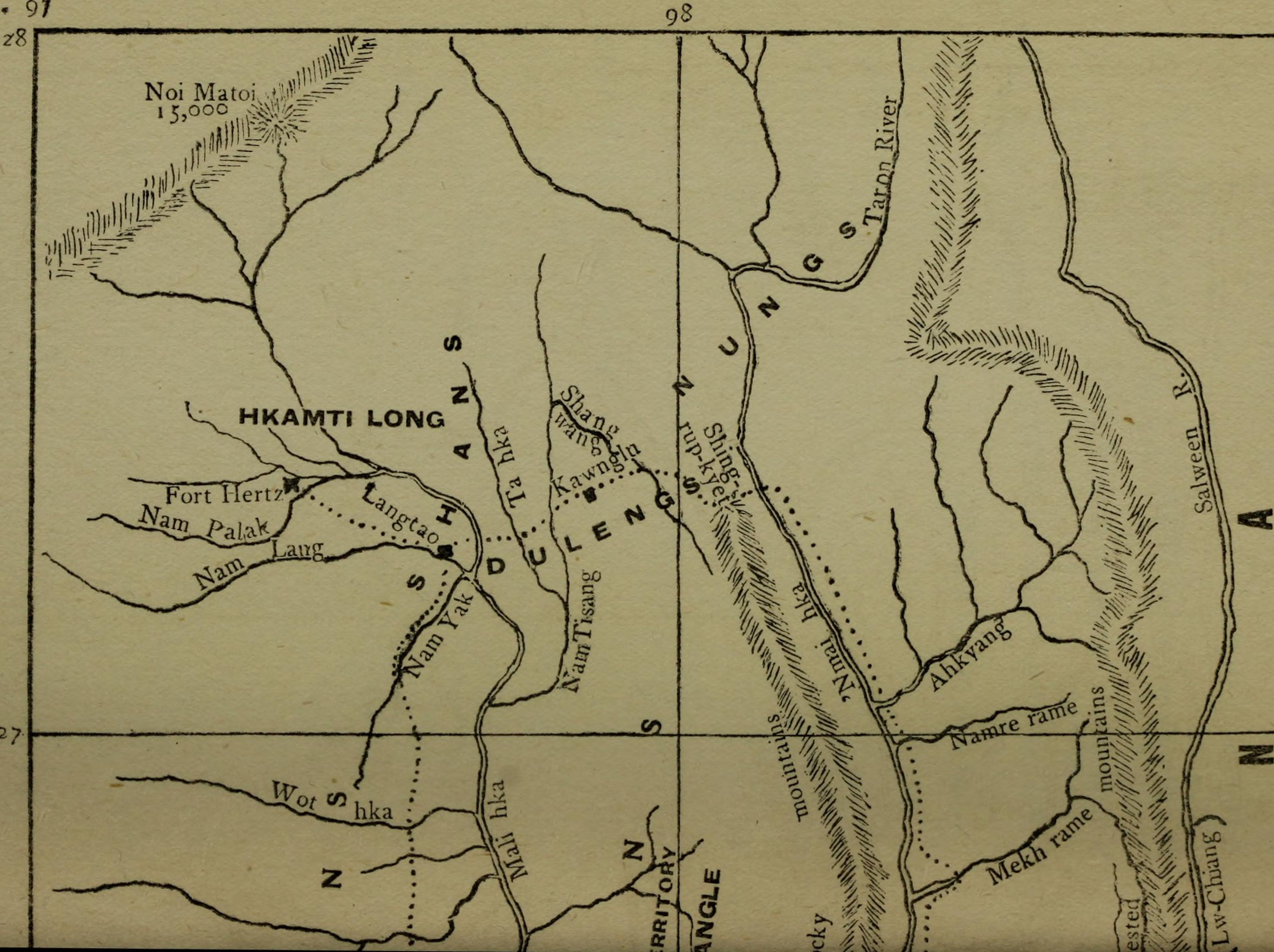 Title: In farthest Burma : the record of an arduous journey of exploration and research through the unknown frontier territory of Burma and Tibet Year: 1921 (1920s) Authors: Ward, Francis Kingdon, 1885-1958 Subjects: Botany Publisher: London : Seeley, Service Text Appearing Before Image: 01 CHAPTER XIVInfinite Torment of Leeches . . . 214 CHAPTER XVThe Plains . . . . . .228 CHAPTER XVIThrough the Kachin Hills . . . 244 CHAPTER XVIIBack to Civilisation. . . . 259 CHAPTER XVIIIThe North-East Frontier .... 274 •Appendices ...... 293 Index ....... 305 LIST OF ILLUSTRATIONS Maru Maidens .... The Mighty Mahseer Cane Bridge over the Ngawchang River . A Maru Matron .... Yawyin Children.... Imaw Bum in June A Yawyin Lisu Family on the Burma Frontier Maru Women pounding Maize . Young Nungs .... A Black Lisu of the Ahkyang A Black Lisu Girl Nung Maidens . An Iron Smelter . A Maru Grave A Nung Rope Bridge A Duleng Village Shan Girls, Hkamti Long 12 Frontispiece PAGE 252572 8888112152168184184192192208208216216 LIST OF ILLUSTRATIONS 13 PAGE A Duleng Girl ginning Cotton . . . .224 A Hammock Bridge . . . . .232 The Monastery, Putao Village . . . .232 Religious Festival on the Hkamti Plain . . . 240 A Kachin Village on the Burma Frontier . . 248 Kachin Raft on the Mali Hka .... 264 Text Appearing After Image: '